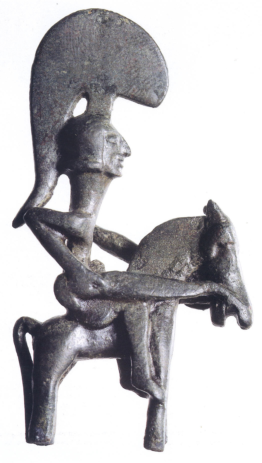 The so-called Warrior of Moixent. Iberian bronze figurine dated circa 400 BC. Also called Horse of La Bastida. Found in Partida de la Bastida de les Alcuses, in Moixent (Province of Valencia, Spain).